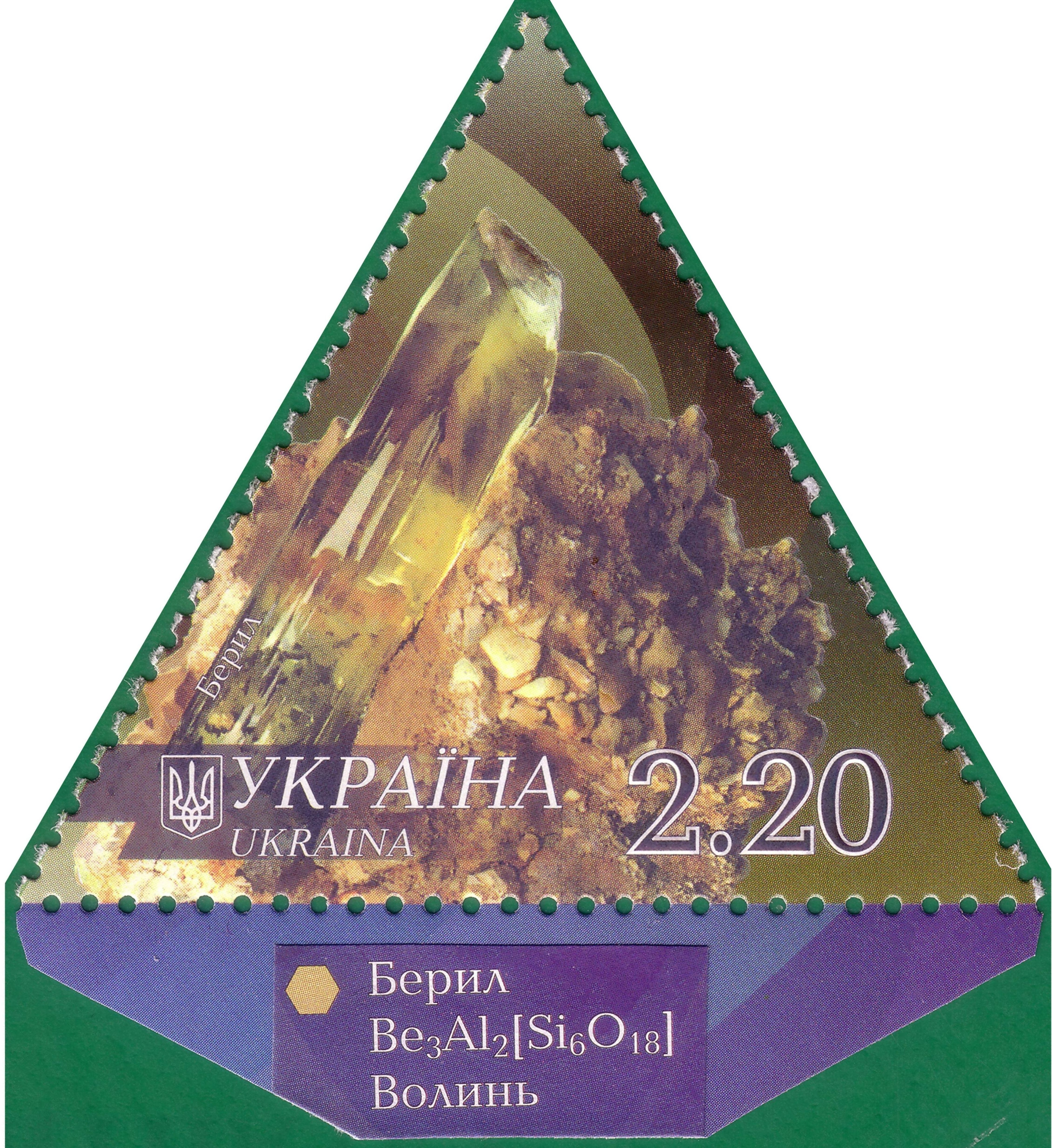 Triangular stamp of Ukraine from the series "Minerals". Face 2 UAH. 20 kopecks. 2009. Beryl.